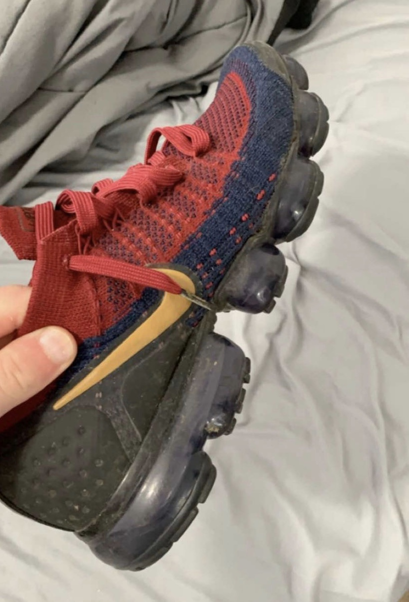 A pair of Nike Air Vapormax